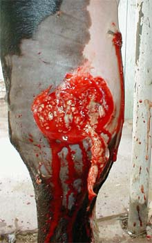 Verminous haemorrhagic dermatitis : internal lesions after skin removal. Walon: Clå d' esté : matire divintrinne après kernaedje-evoye del pea.